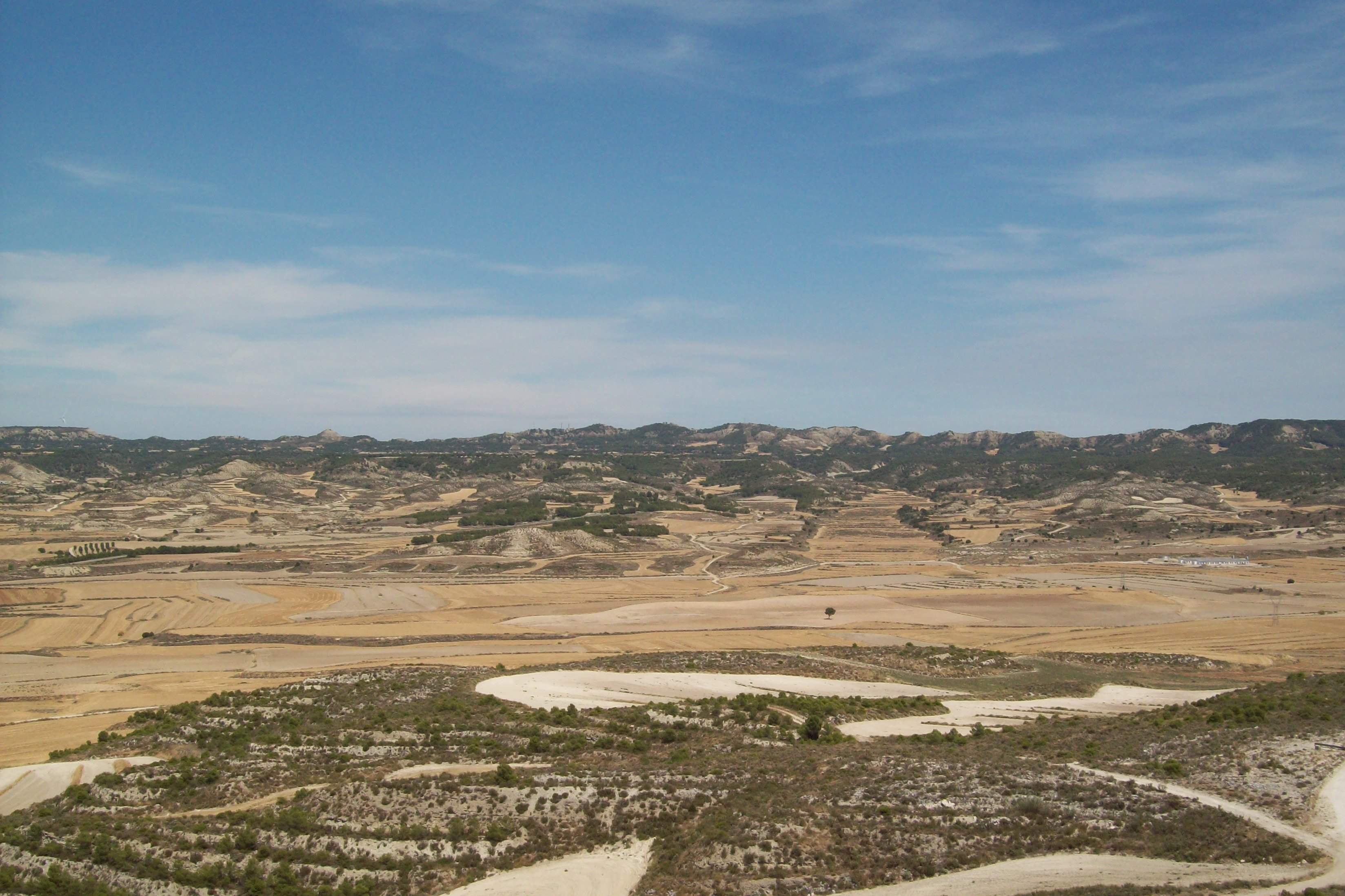 The Sierra of Alcubierre, between the provinces of Zaragoza and Huesca, in the most western part of Monegros.